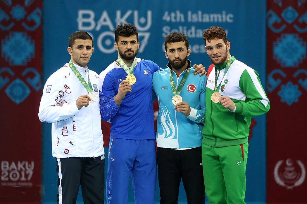 Wrestling at the 2017 Islamic Solidarity Games, Greco-Roman 80 kg podium